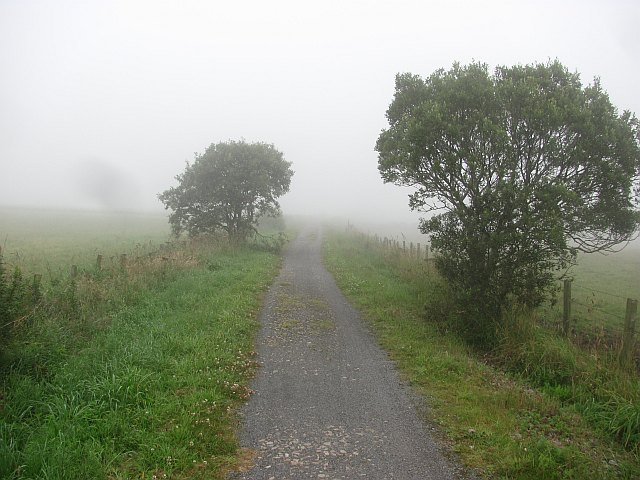 Formartine and Buchan Way